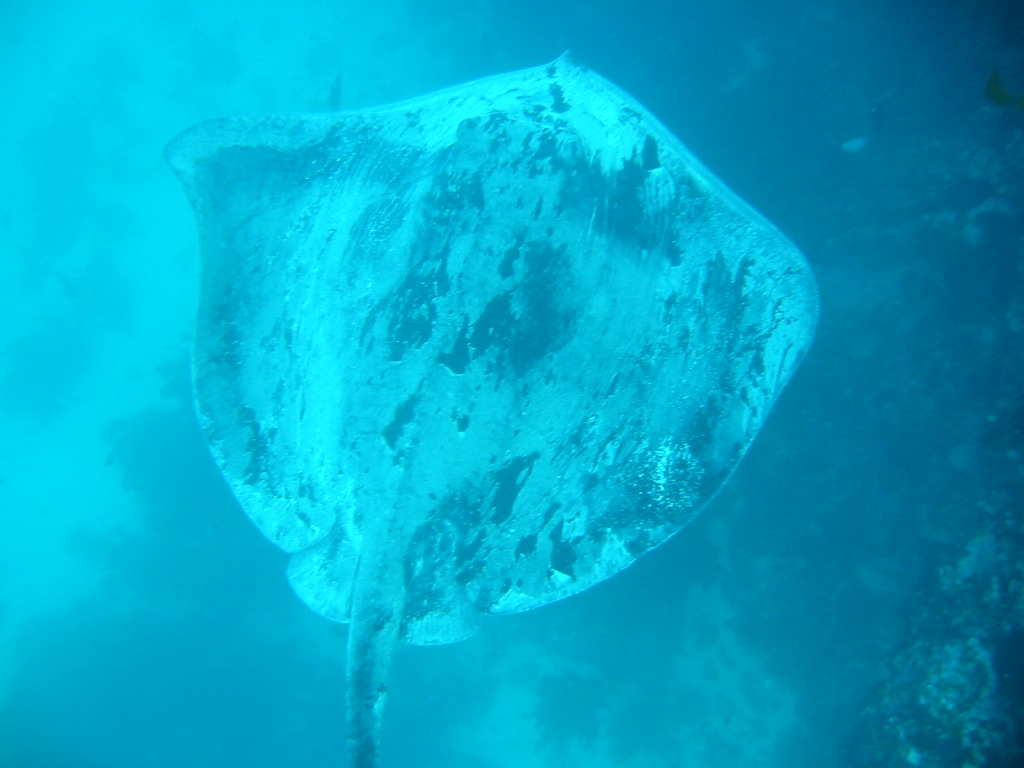 Thorntail stingray (Dasyatis thetidis) at Poor Knights Islands, New Zealand